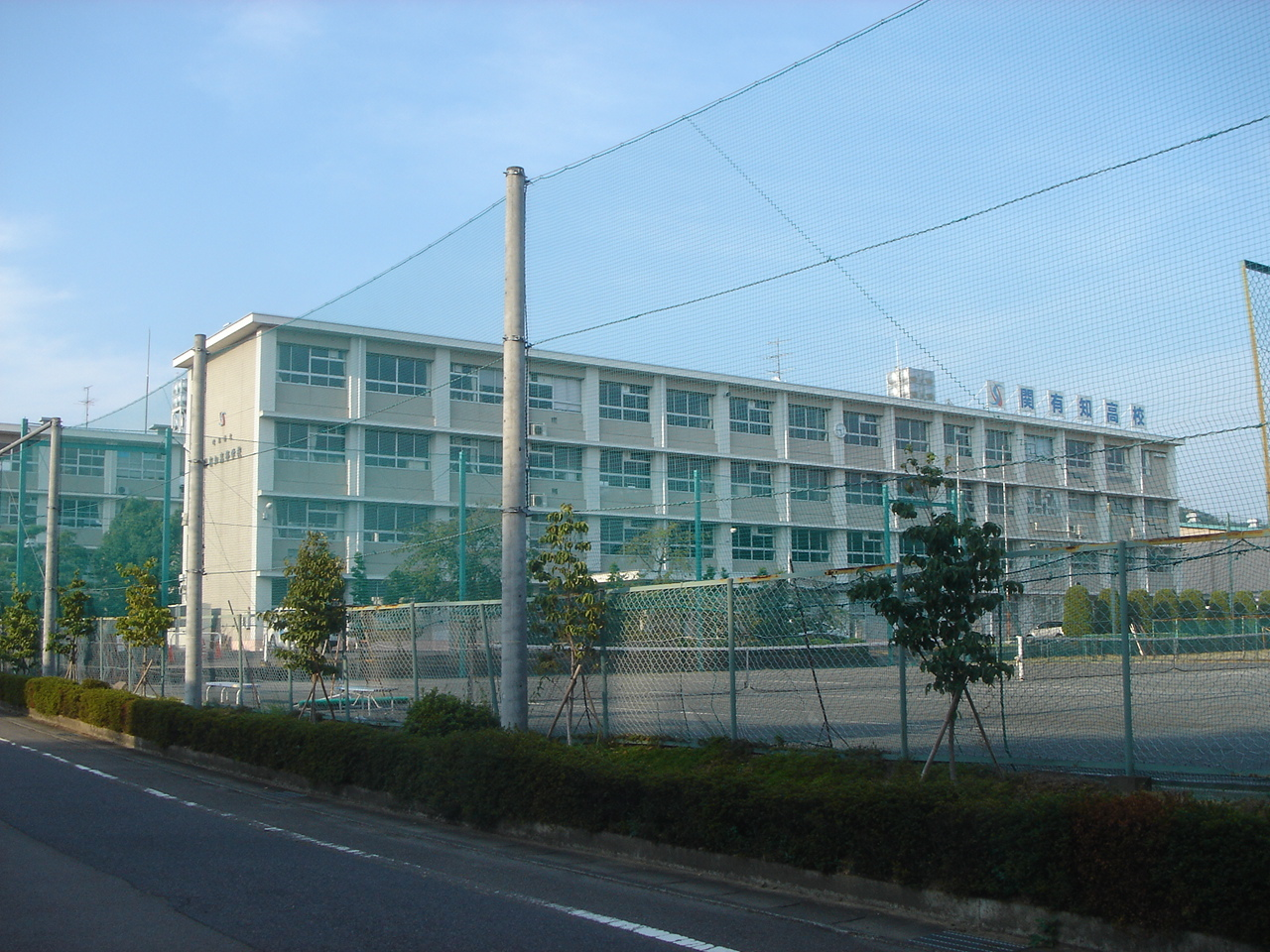 Gifu Prefectural Sekiuchi High School（岐阜県立関有知高等学校）,Seki,Gifu,Japan(岐阜県関市)で撮影。